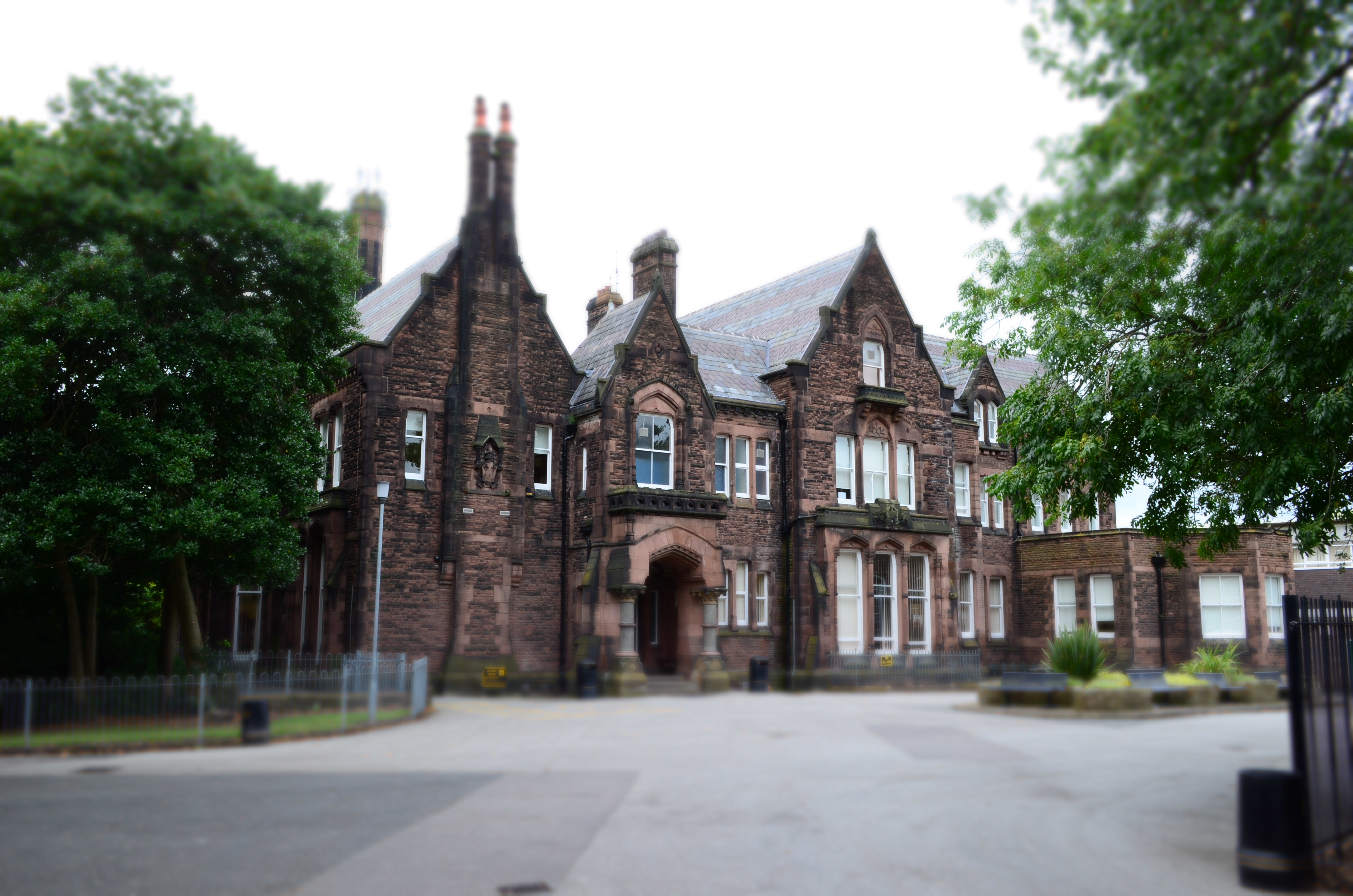 Photograph of the school